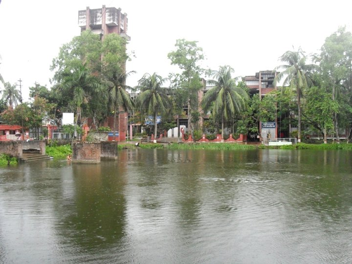 Front side of bpl